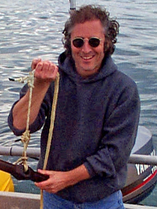 Gene